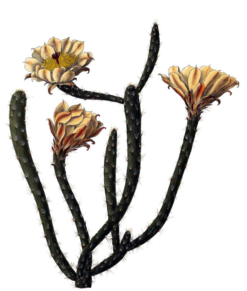 Pterocactus tuberosus